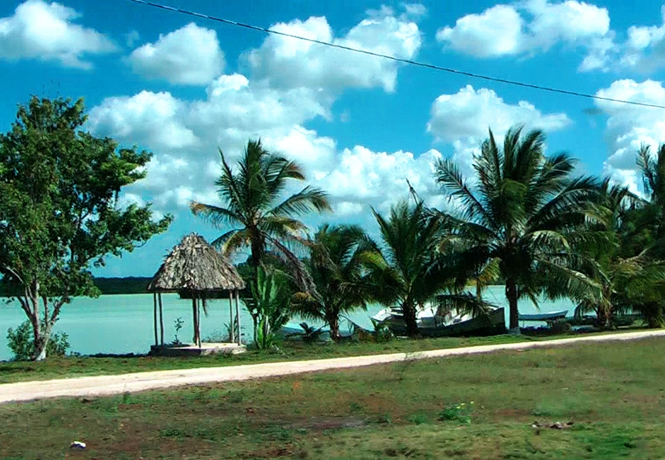 Belize Copper Bank Lagune